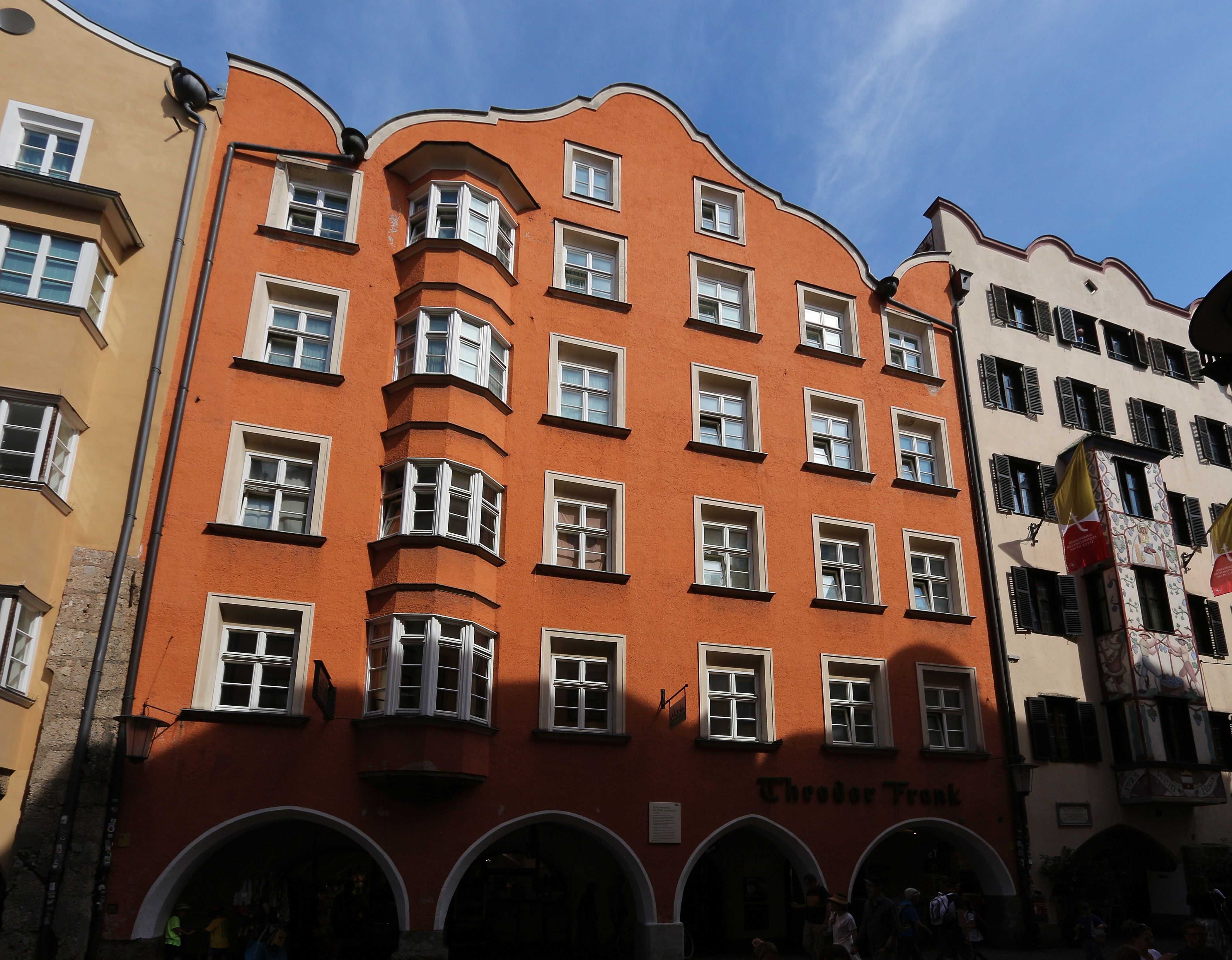 Herzog-Friedrich-Straße 29